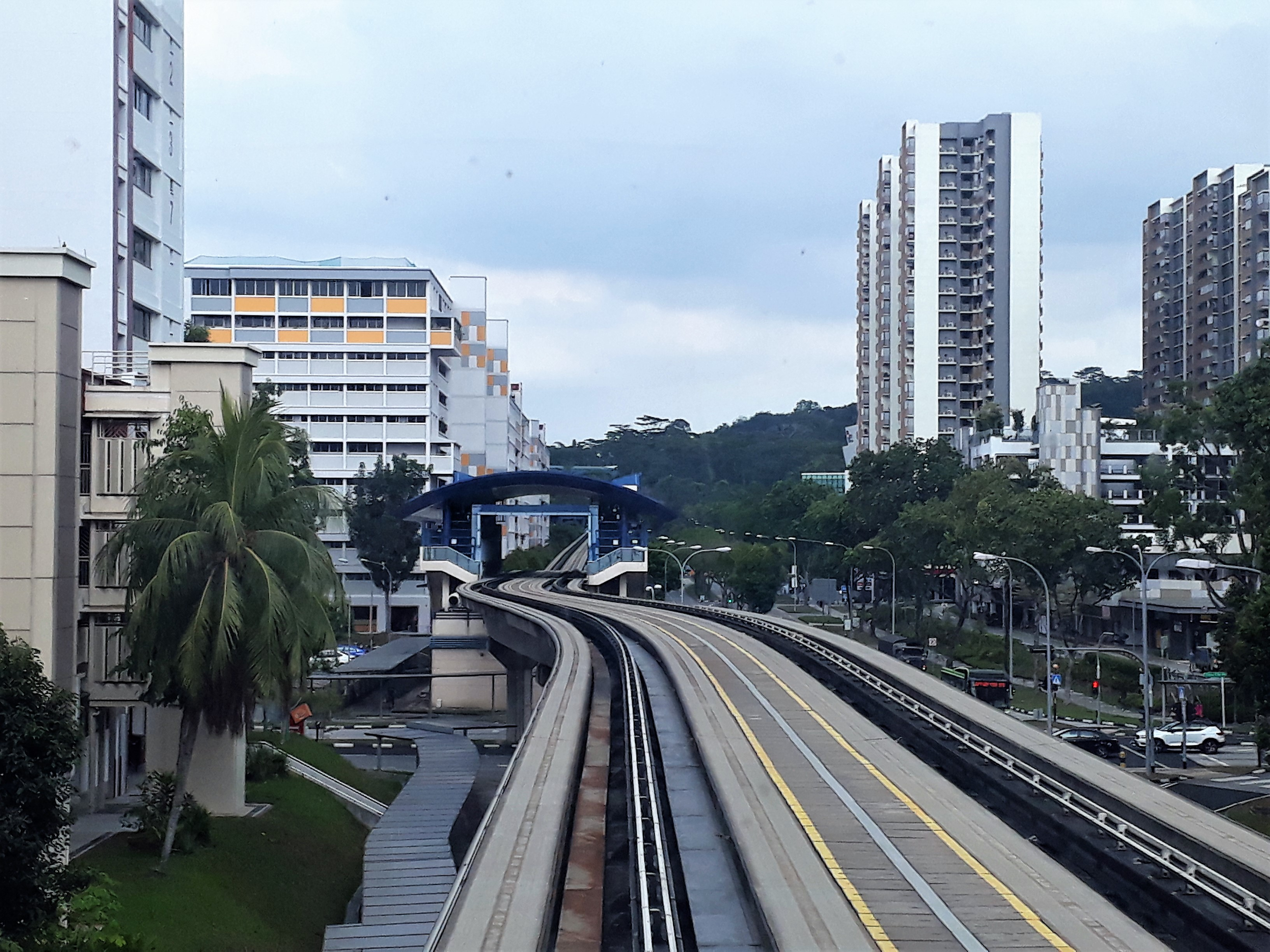 Exterior of Keat Hong